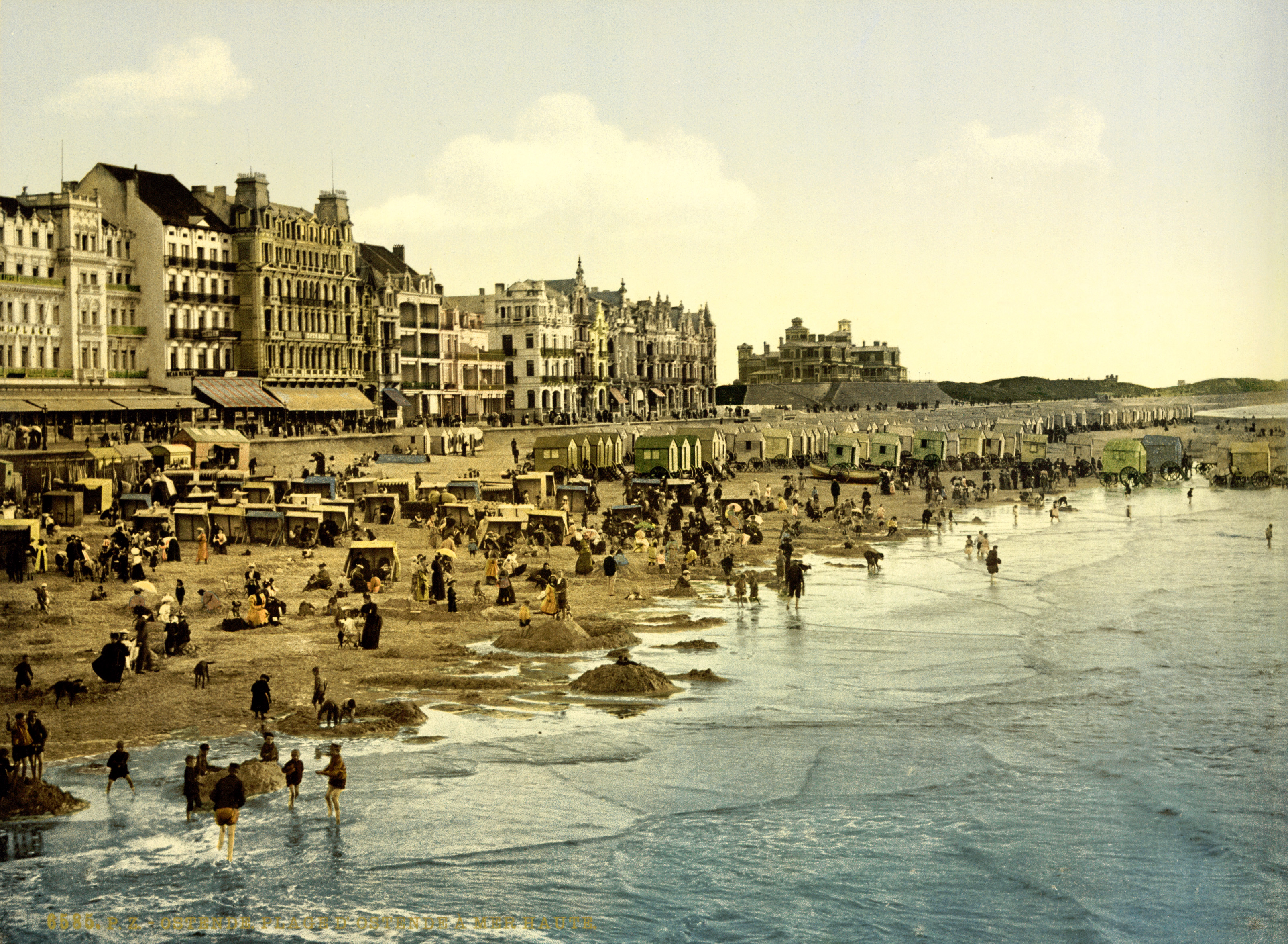 Photochrom print by Photoglob Zürich, between 1890 and 1900. From the Photochrom Prints Collection at the Library of Congress More photochroms from Belgium | More photochrom prints [PD] This picture is in the public domain